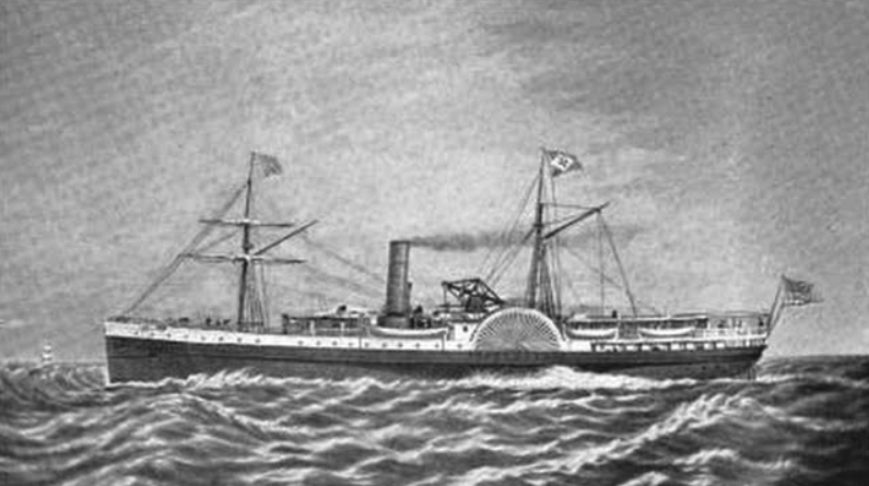 Steamship Orizaba (1854) flying the house flag of the Pacific Coast Steamship Company which owned the vessel from 1875 to 1887.